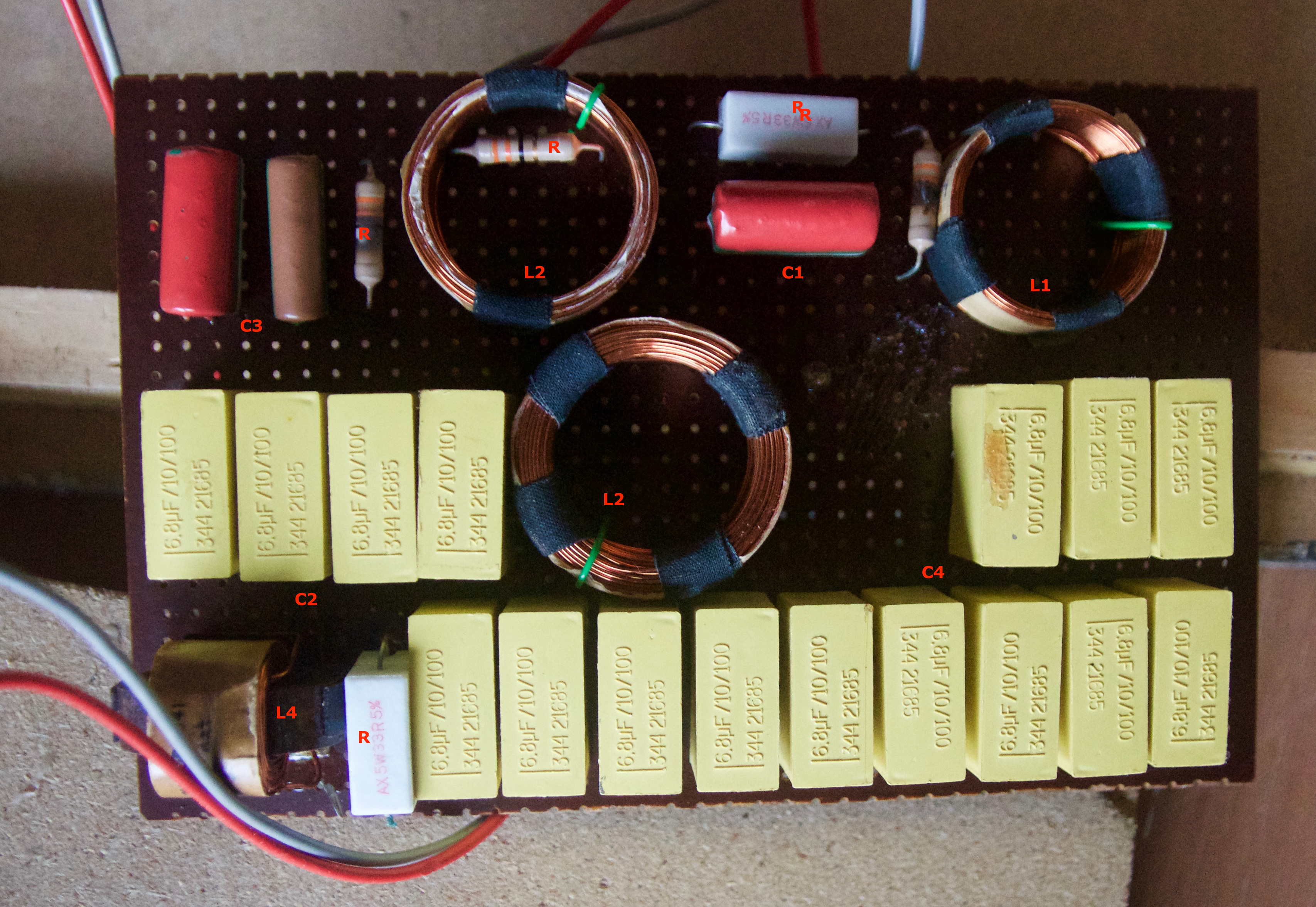 Loudspeaker crossover filter